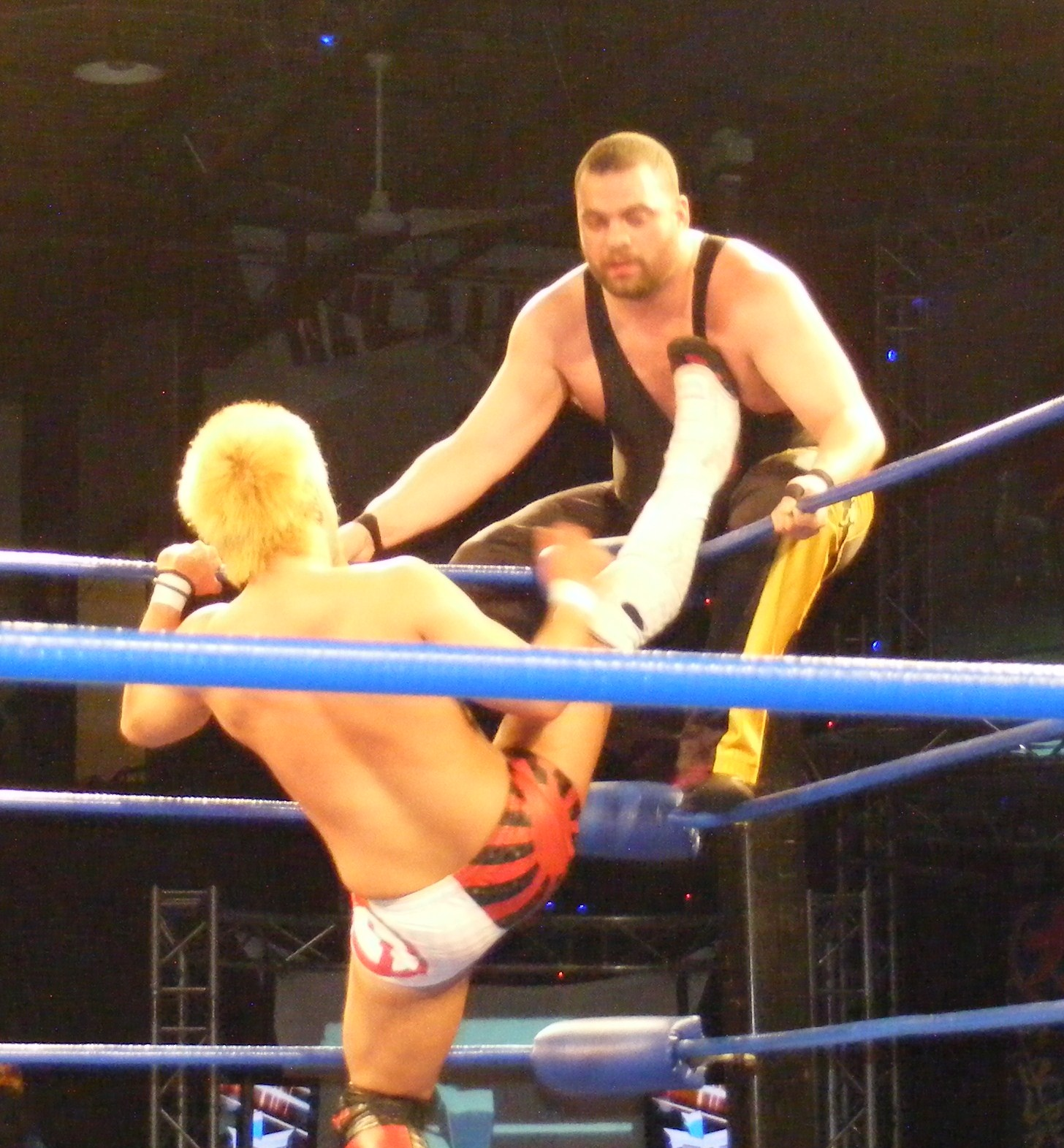 Akira Tozawa wrestles Eddie Kingston during Night Three of CHIKARA's 2011 King of Trios tournament on April 17, 2012.